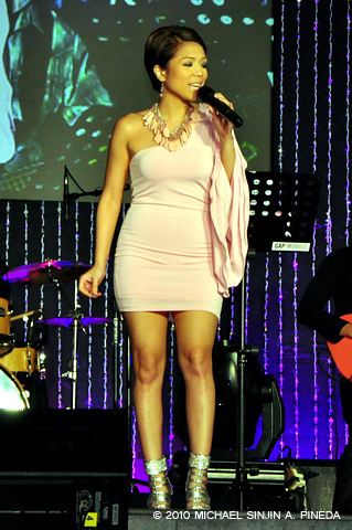 Nina performing on her concert at The Terraces, Ayala Center Cebu, entitled "Think Pink: Cocktails for a Cause." It was held during the Think Pink Month. "Think Pink" is a campaign which benefits ICanServe Foundation, a foundation fighting breast-cancer.